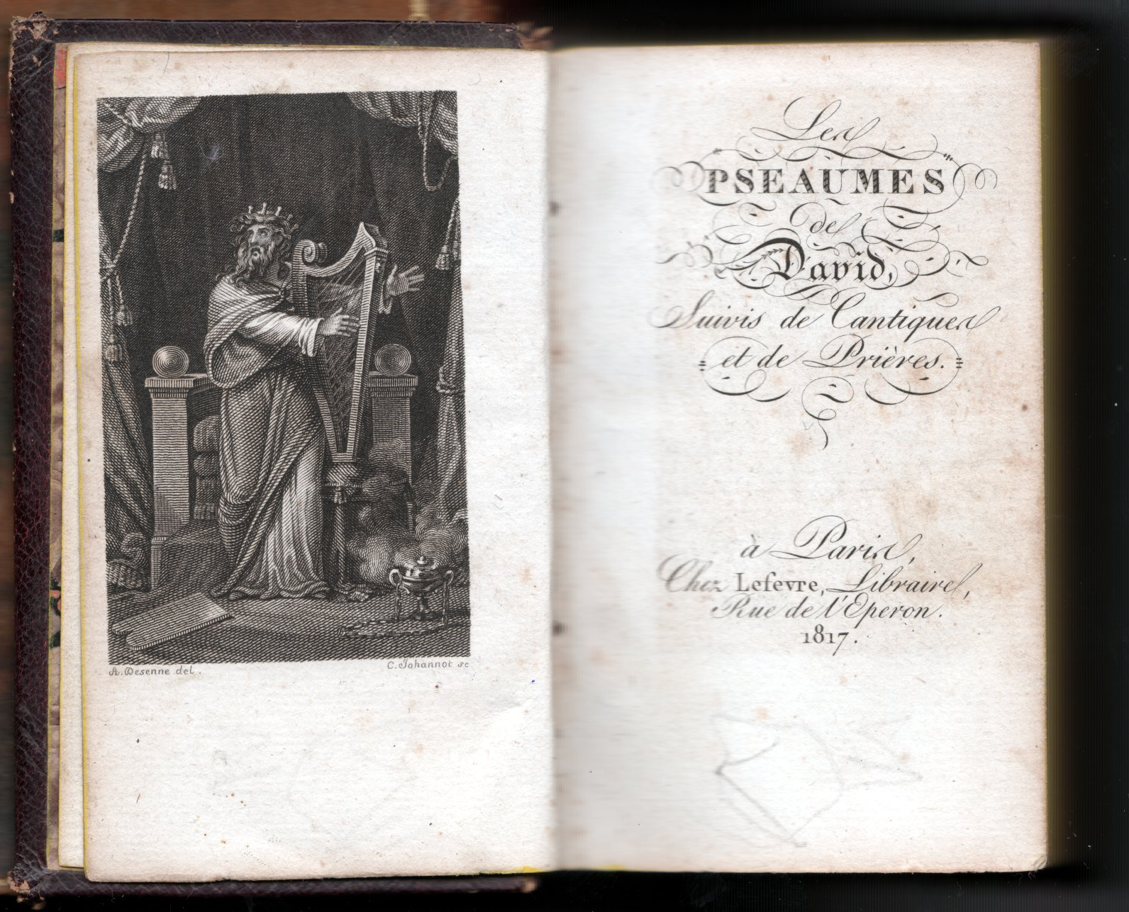 Front page of a protestant psalm book of 1817 The real height of the page is 111mm